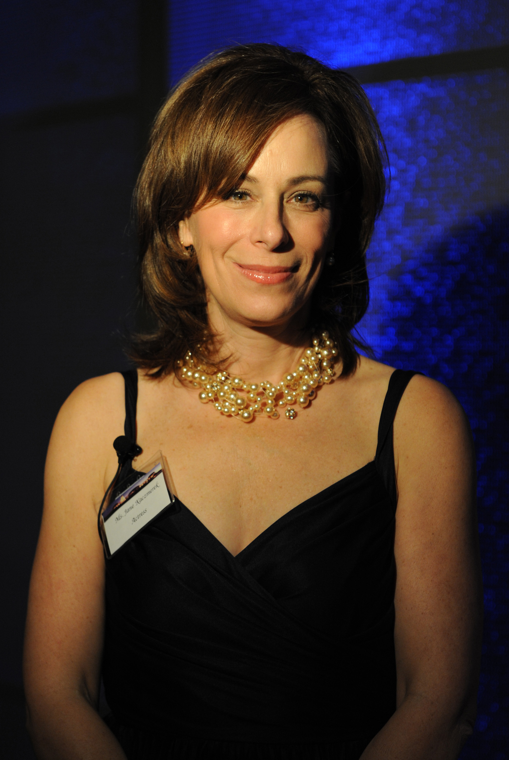 081117-F-1830P-092 Jane Kaczmarek, a Friends of the Observatory member, attends an event at the Griffith Observatory to honor Air Force members during Air Force Week Los Angeles, CA on November 17, 2008.